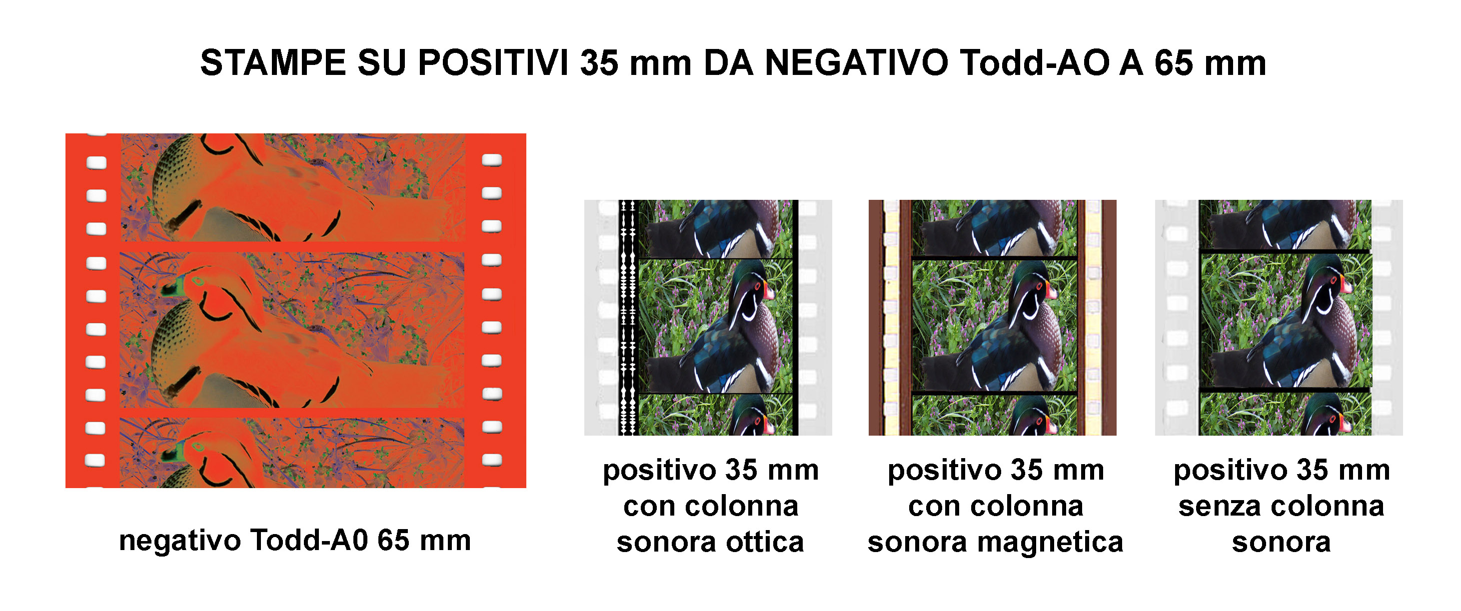 Different 35 mm positives printed from 70 mm negative Todd-AO